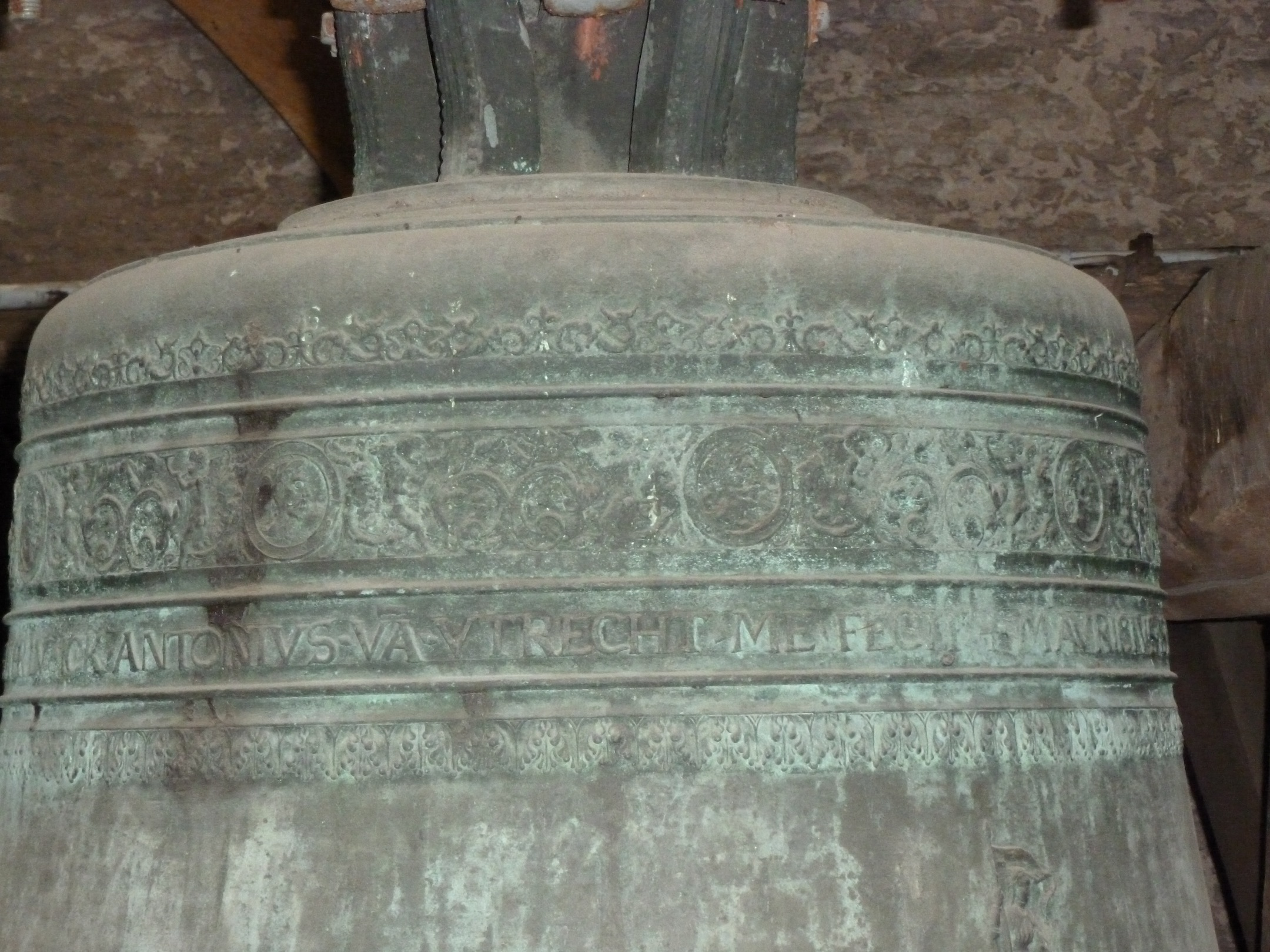 Glocke Nr. 1 - Detail